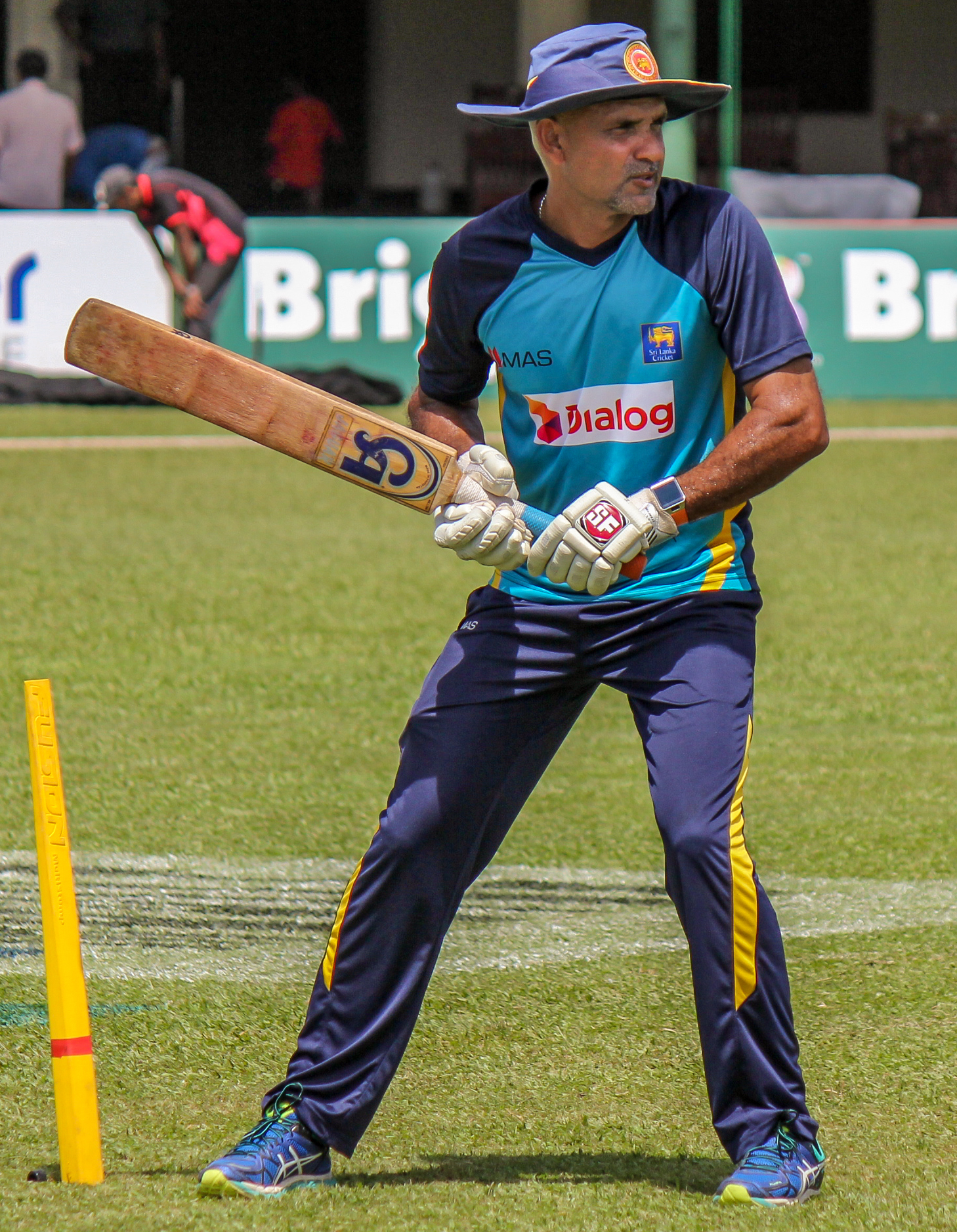 Former Sri Lanka cricketer Marvan Atapattu giving slip catching practice.